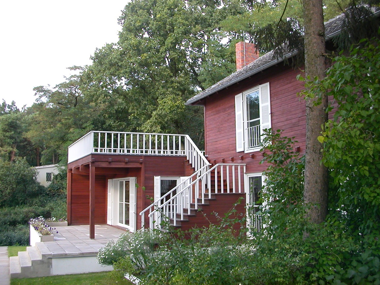 The Einstein House in Caputh, Germany where Albert Einstein lived in the summers of 1929 to 1932. It was a present of the city of Berlin occasioned by Albert Einsteins 50th birthday. It was built by Konrad Wachsmann.